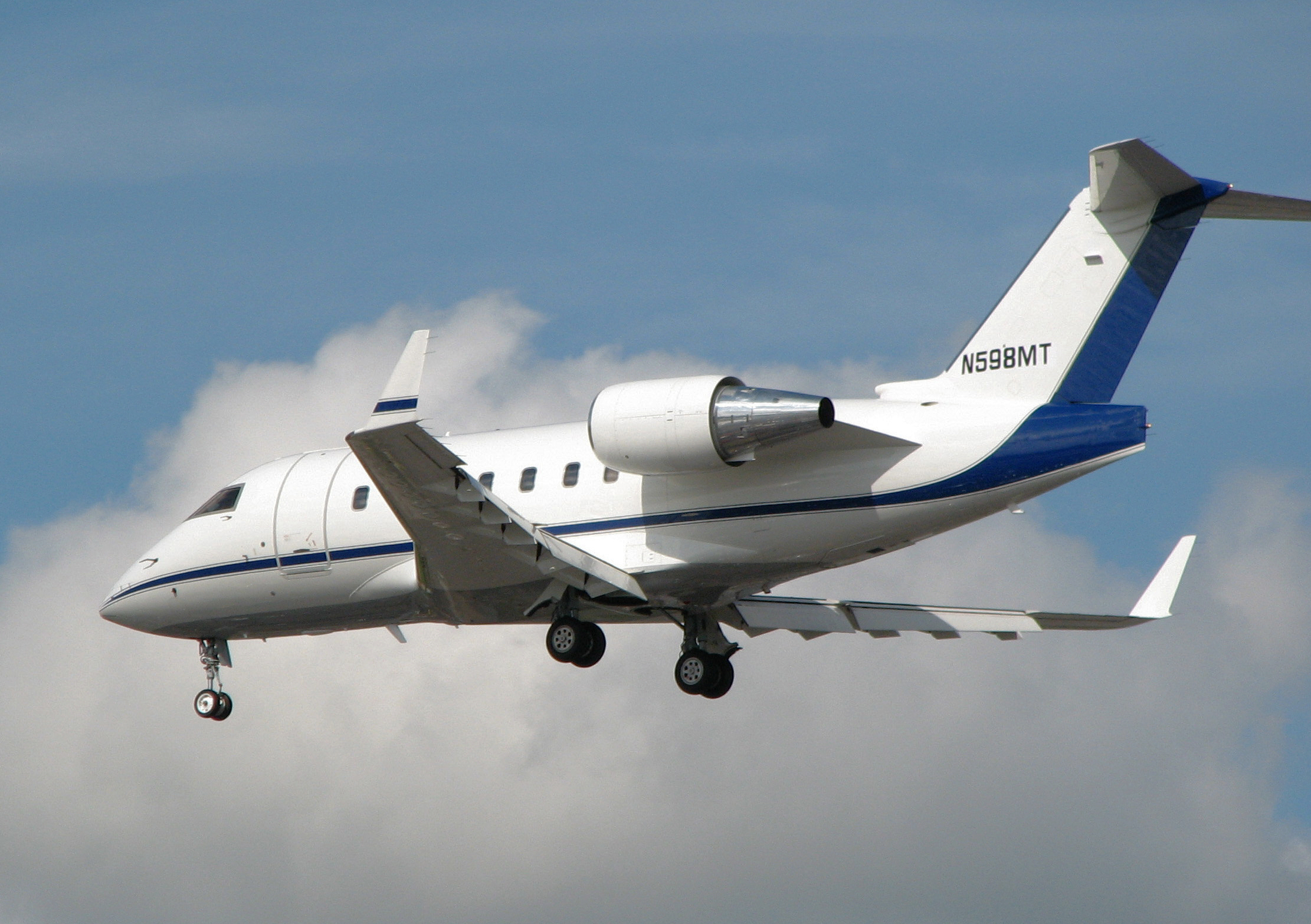 A Bombardier CL-600 business jet (US registration N598MT) at London Heathrow Airport, England. Built in 2001.